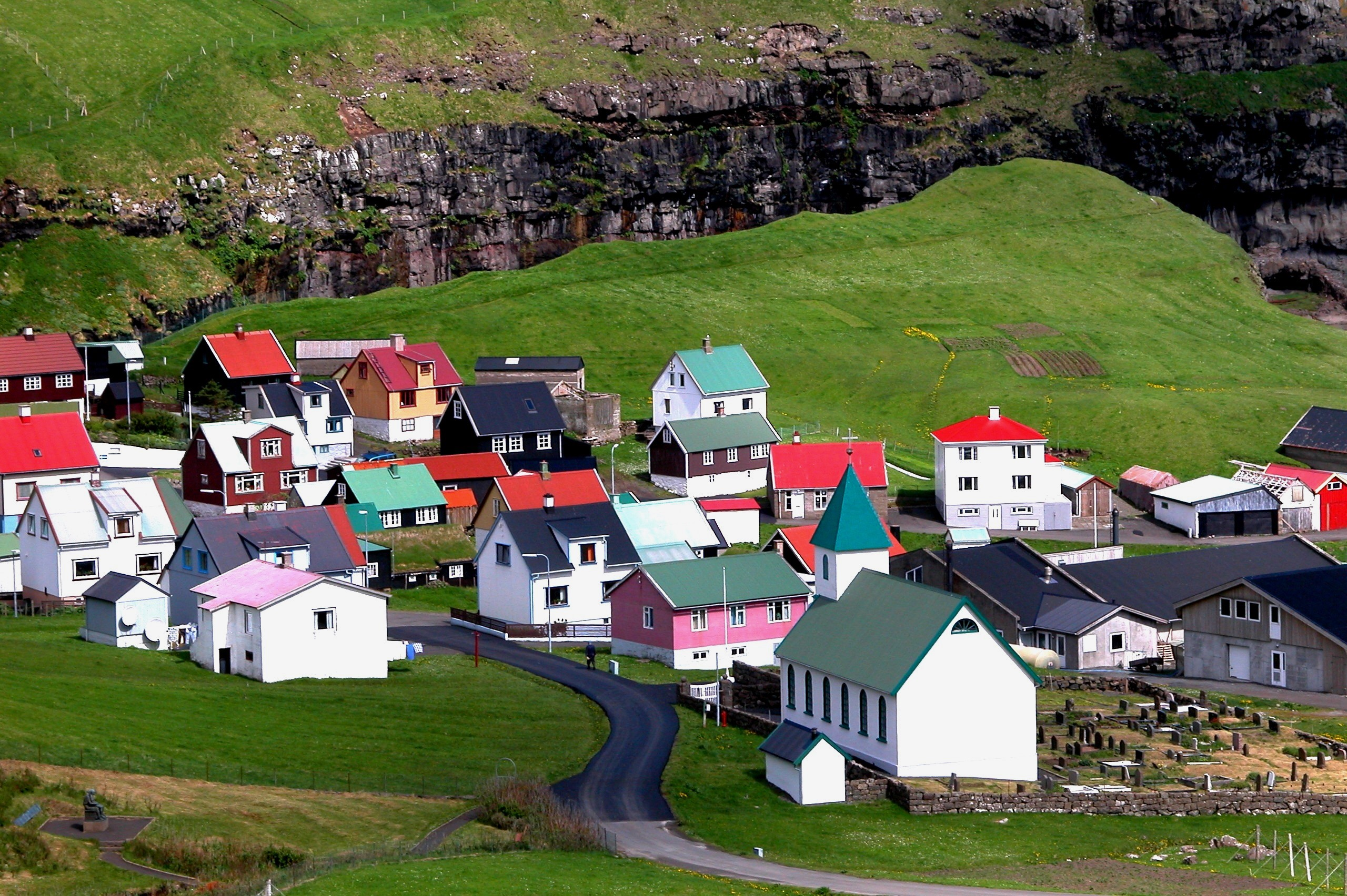 Gjógv, Eysturoy, Faroe Islands.